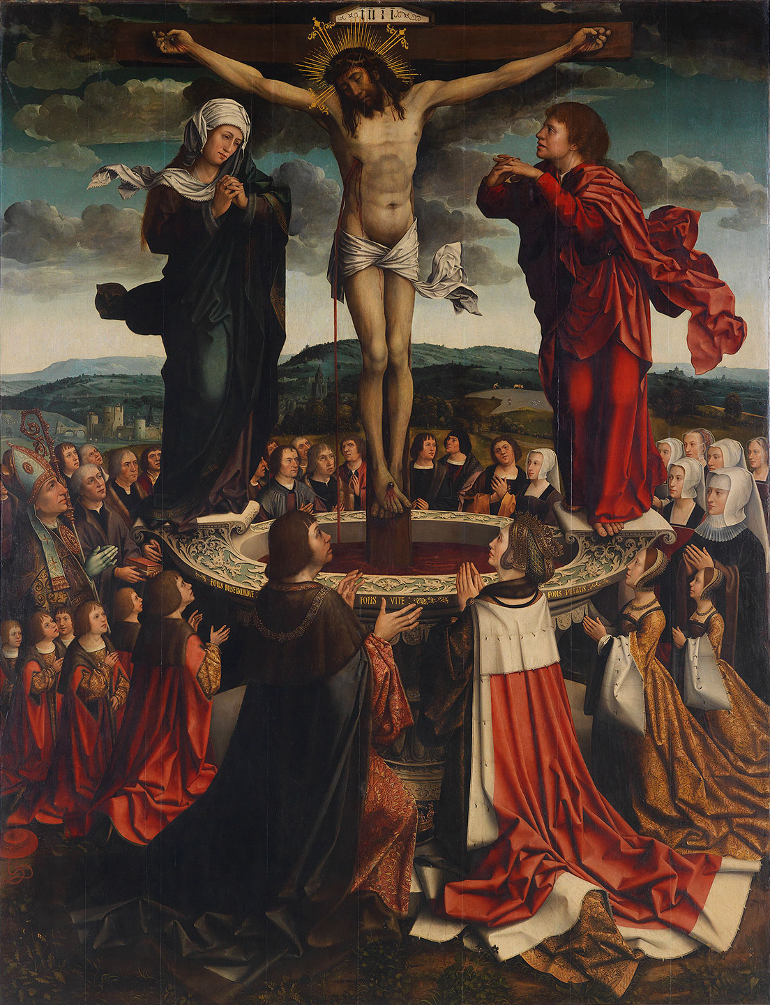 On the center right is Maria of Aragon, followed by Isabella of Portugal, and then Beatrice of Portugal, Duchess of Savoy and the center left is Manuel I of Portugal, followed by his sons in descending order of age.